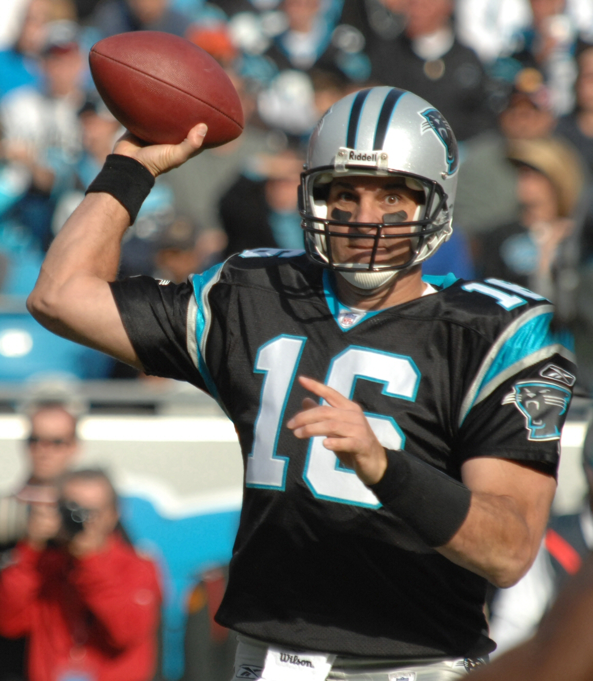 CHARLOTTE, N.C. -- Carolina Panthers quarterback, Vinny Testaverde, attempts a pass Nov. 11 against the Atlanta Falcons in a game to which they were being led onto the field by wounded veterans